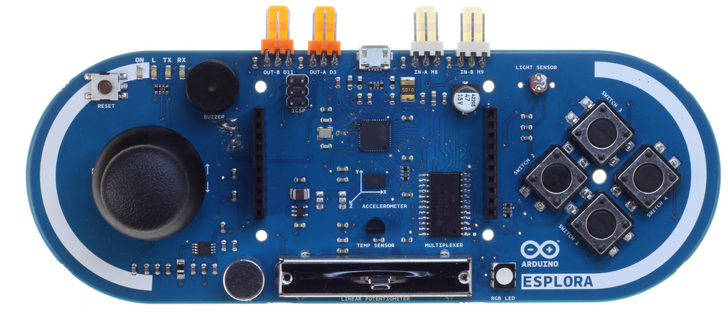 Arduino Esplora is a microcontroller board derived from the Arduino Leonardo.It provides a number of built-in, ready-to-use set of onboard sensors for interaction.